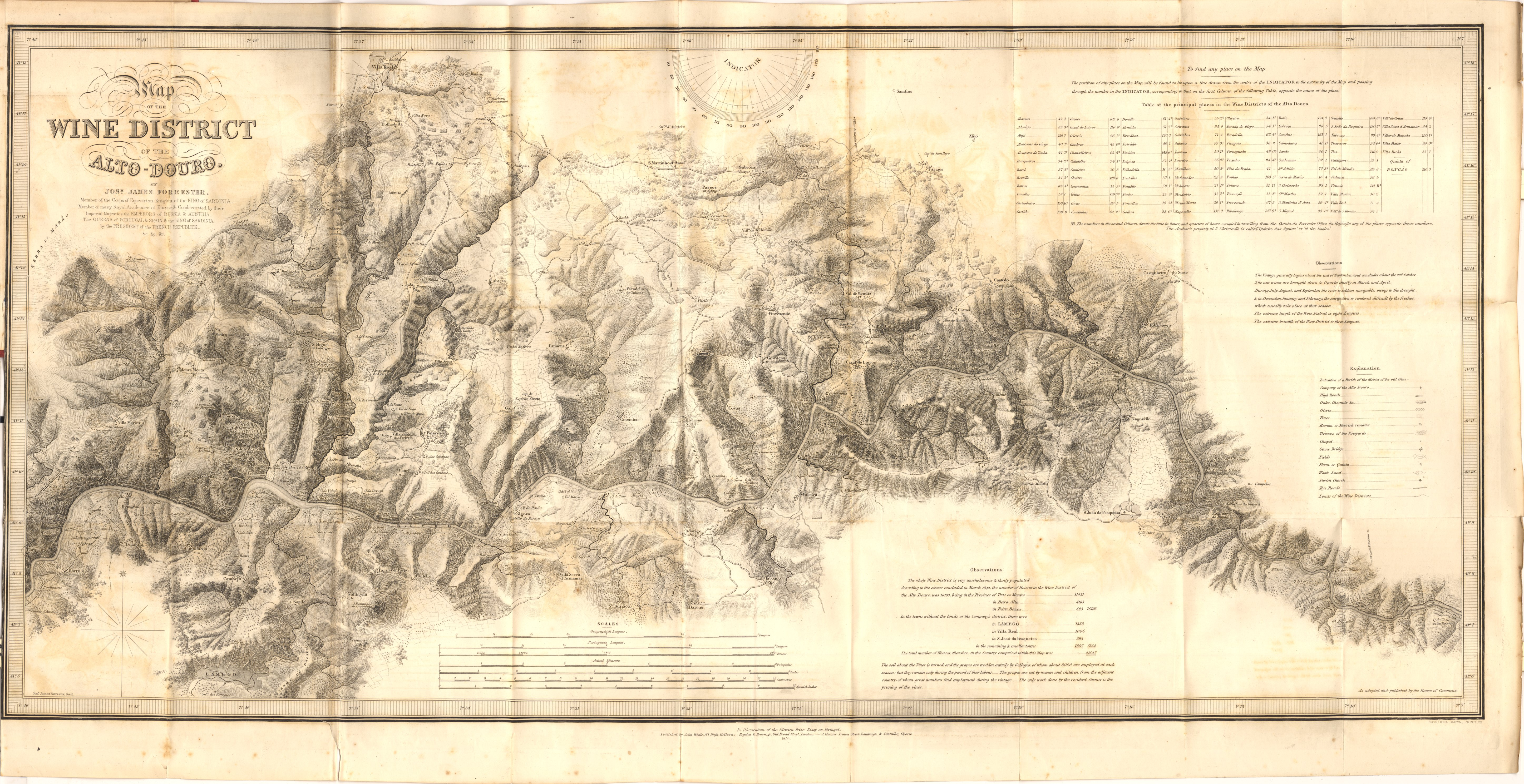 Map of the wine district of the Alto-Douro. The prize-essay on Portugal : being the essay for which the "Oliveira Prize and Medal" were awarded...